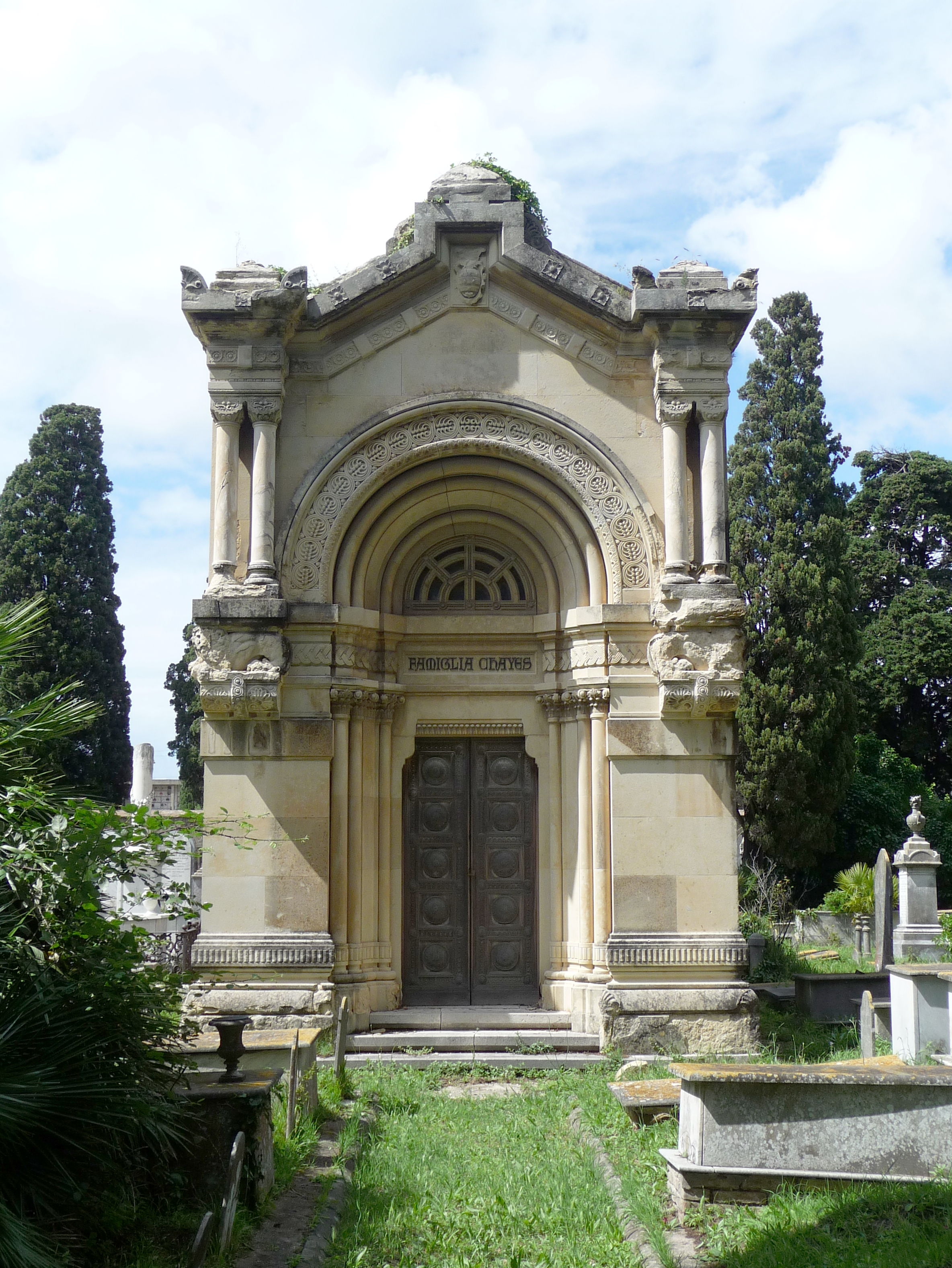 Jewish cemetery - Cimitero ebraico "dei Lupi", Livorno, Italy - Famiglia Chayes